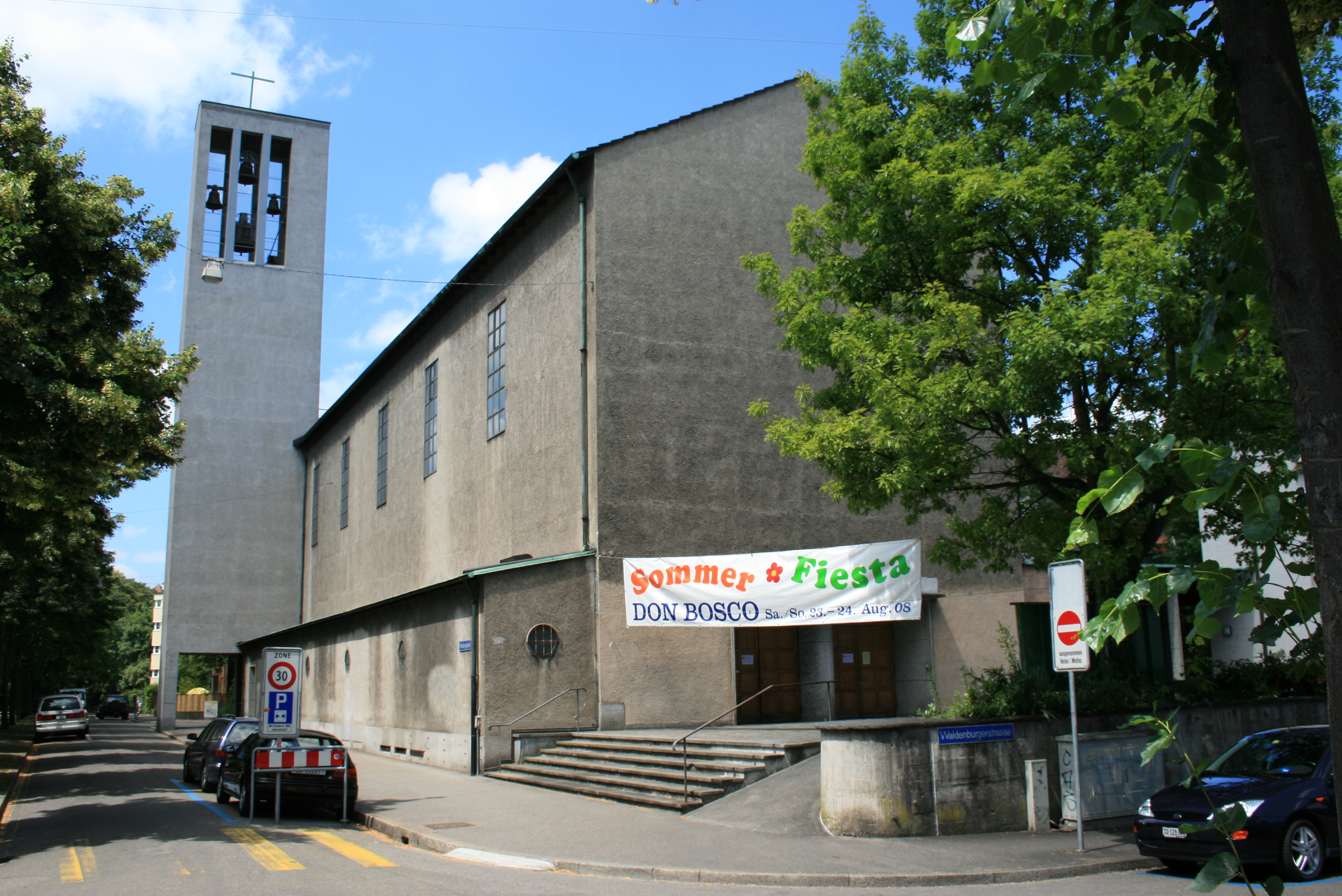 Don Bosco Church in Basel, Switzerland.